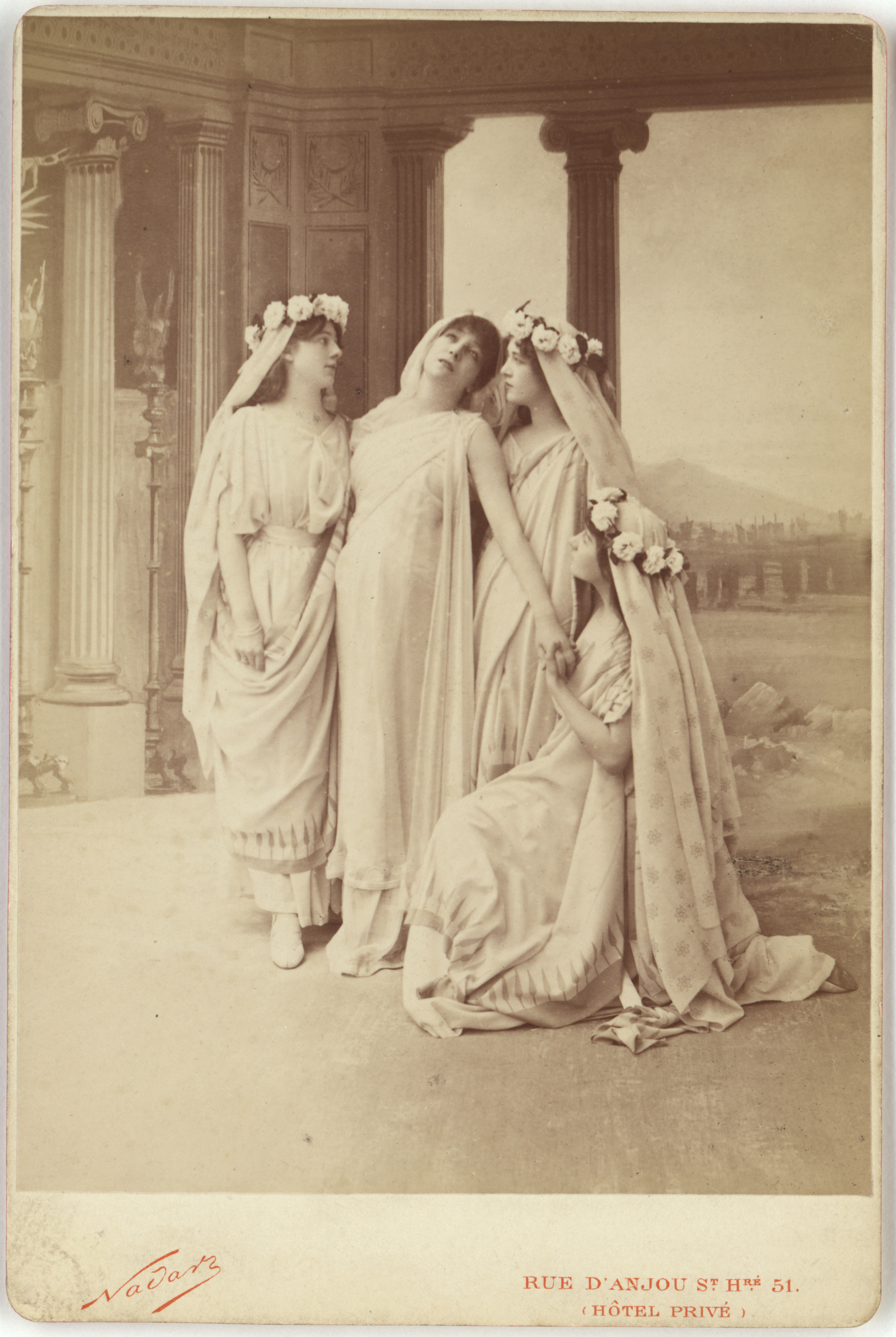 Introduced in the 1860s, cabinet cards were studio-produced photographs mounted on cardstock. Inexpensive multiples offered for public sale, they often featured portraits of celebrities of the day–writers, musicians, actors–and were widely collected. Nadar's photograph of Sarah Bernhardt (French, 1844-1923) as Phèdre is from a collector's album of cabinet card portraits of Bernhardt by various photographers. A famous actress in the late 1800s, the "Divine Sarah" was a brilliant self-promoter at a time when the basis of celebrity was shifting from the political figure to the theatrical performer. Bernhardt pioneered the use of new technologies to disseminate her image: she was one of the most photographed women in the world, and the first major stage actress to star in films. She made several recordings of famous theatrical dialogues including a reading from Racine's Phèdre at Thomas Edison's home. A recognizable figure, Bernhardt–often depicted in theatrical costume–endorsed commercial products. Contemporary with this cabinet card, her image appeared on cigarette cards, an early form of product promotion. Advertisements as well as collectable ephemera, cigarette cards like cabinet cards, reinforced Bernhardt's image in popular culture.